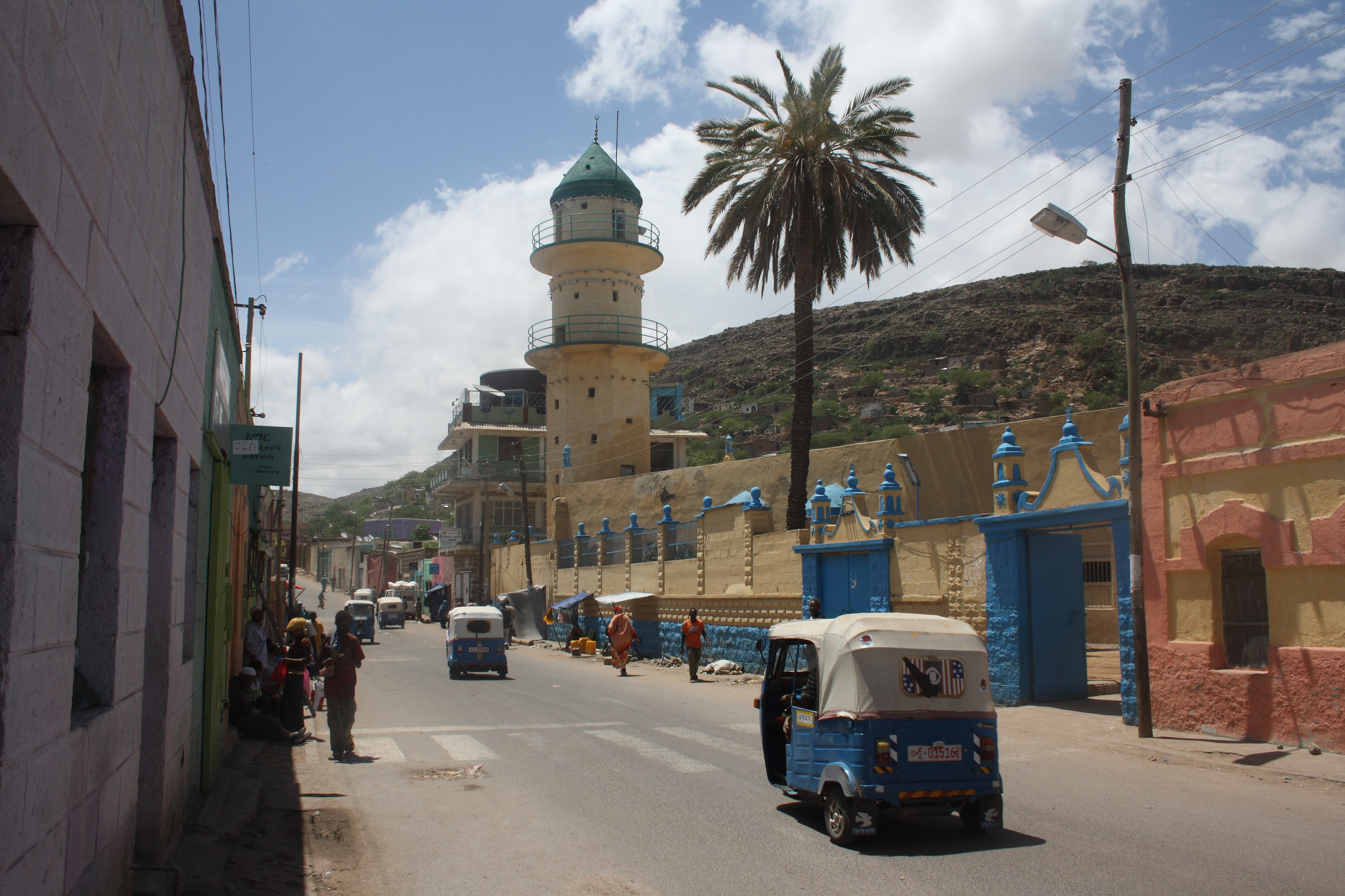 Grand Jumaa Mosque at Dire Dawa, Ethiopia